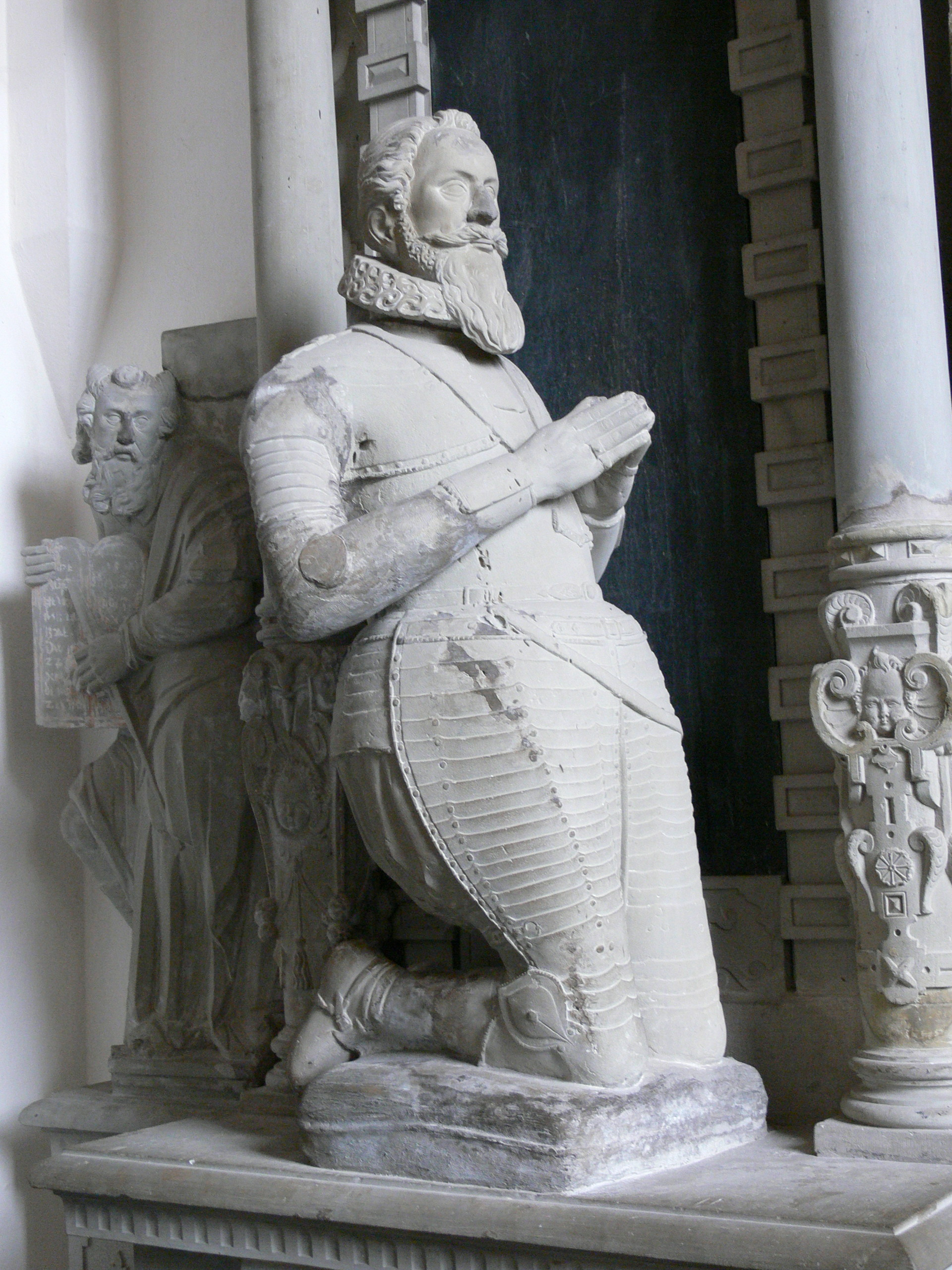 Ribe Cathedral. Epitaph of Admiral Albert Skeel ( 1625 ) in Bethlehem´s chapel.